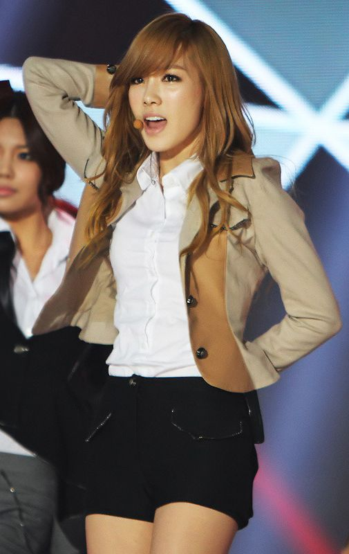 Taeyeon performing at Nongshim Love Sharing Concert on November 6, 2011